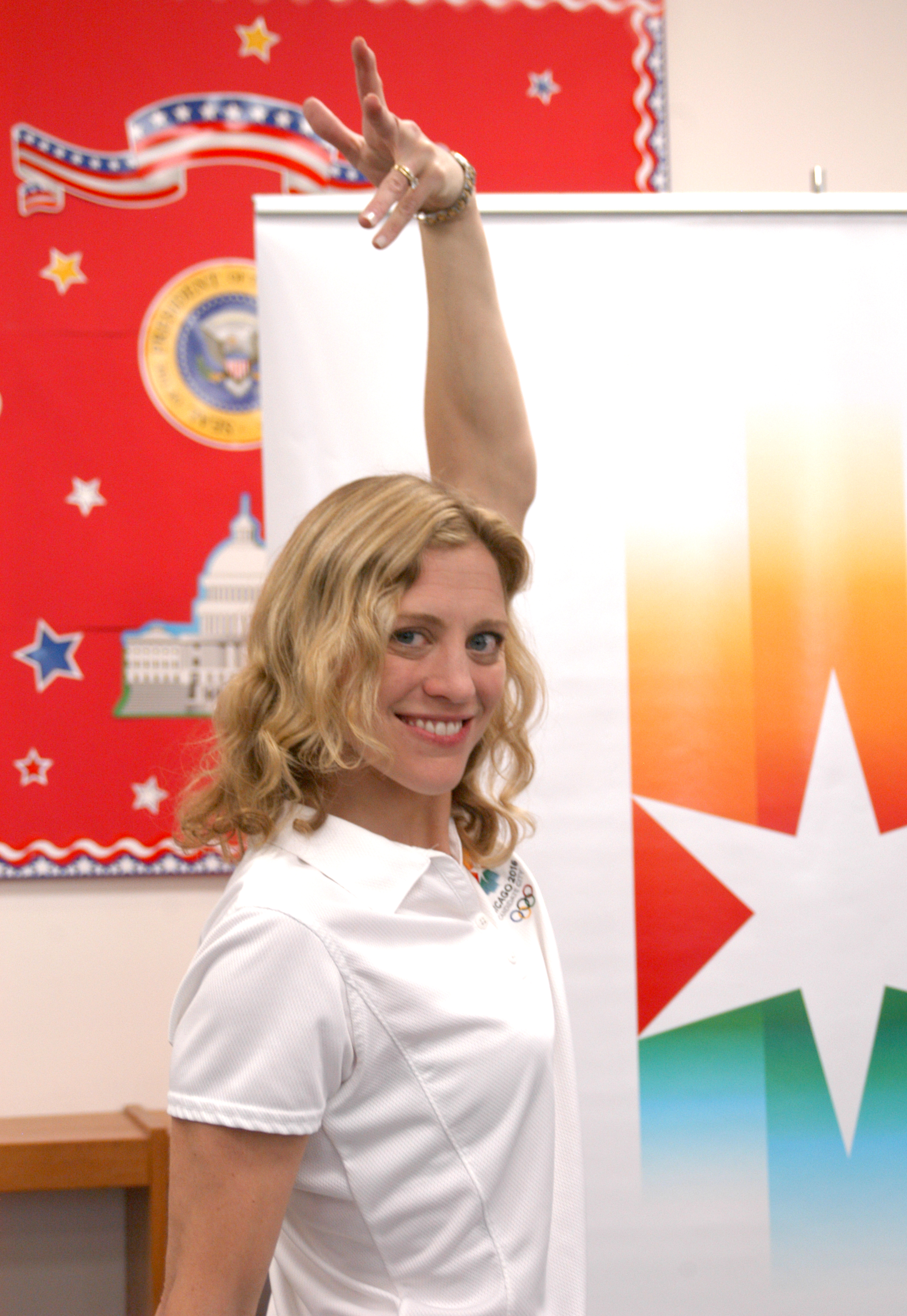 Diane Simpson, an Olympian in rhythmic gymnastics in 1988, reads to kids at the Hall Branch for the Chicago 2016 Star Reading program.